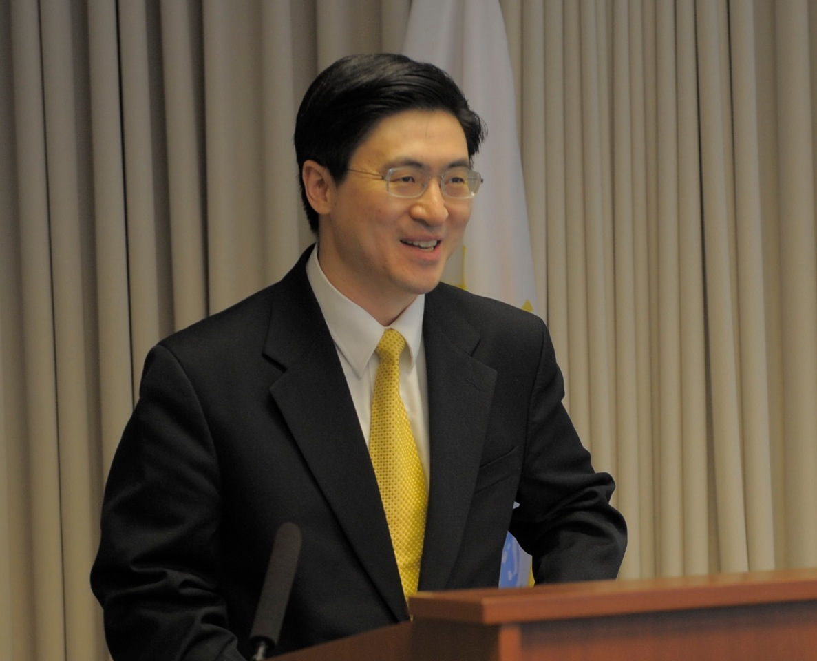 Mung Chiang received the NSF Waterman Award in 2013. This is a picture of him speaking at the ceremony.